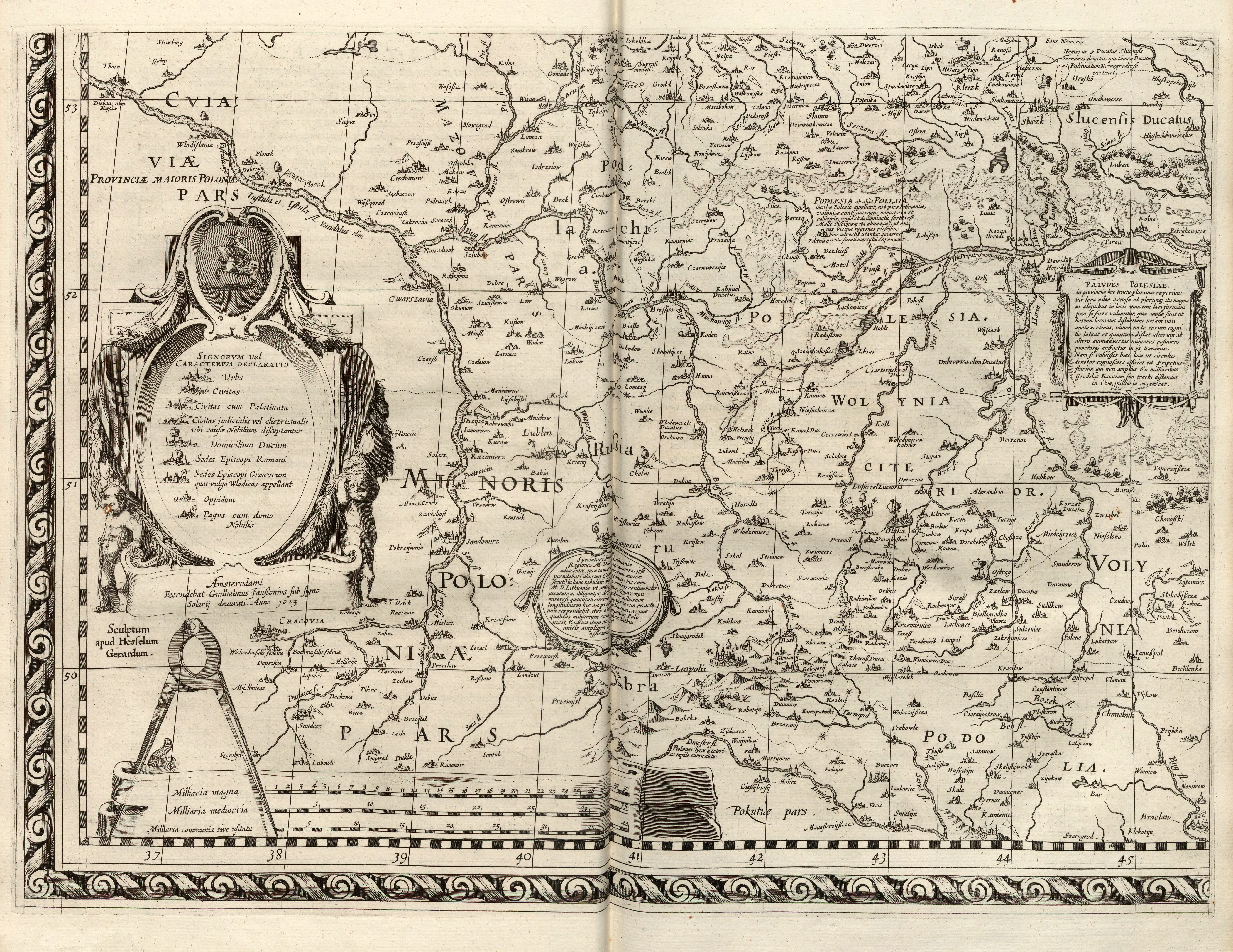 maps:Wielkie Księstwo Litewskie